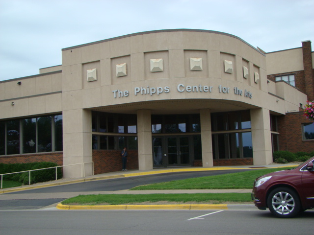 A photograph of the Phipps Center for the Arts, in Hudson, Wisconsin, USA.